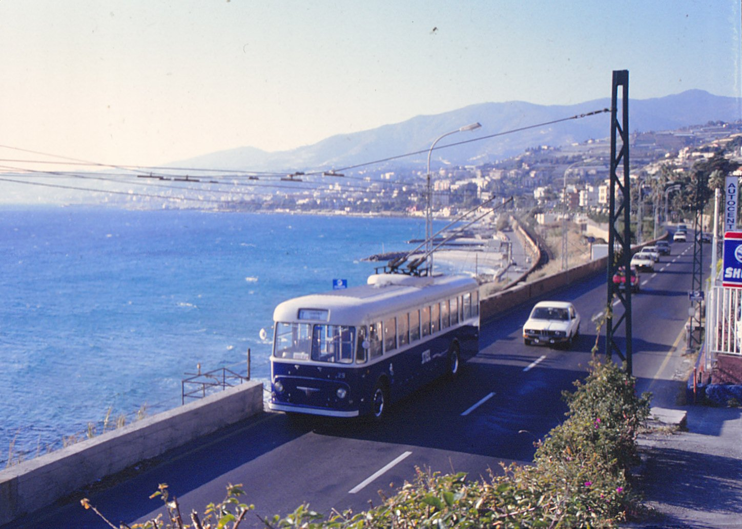 Panorama of Sanremo bay with heritage trolleybus 29 in foreground